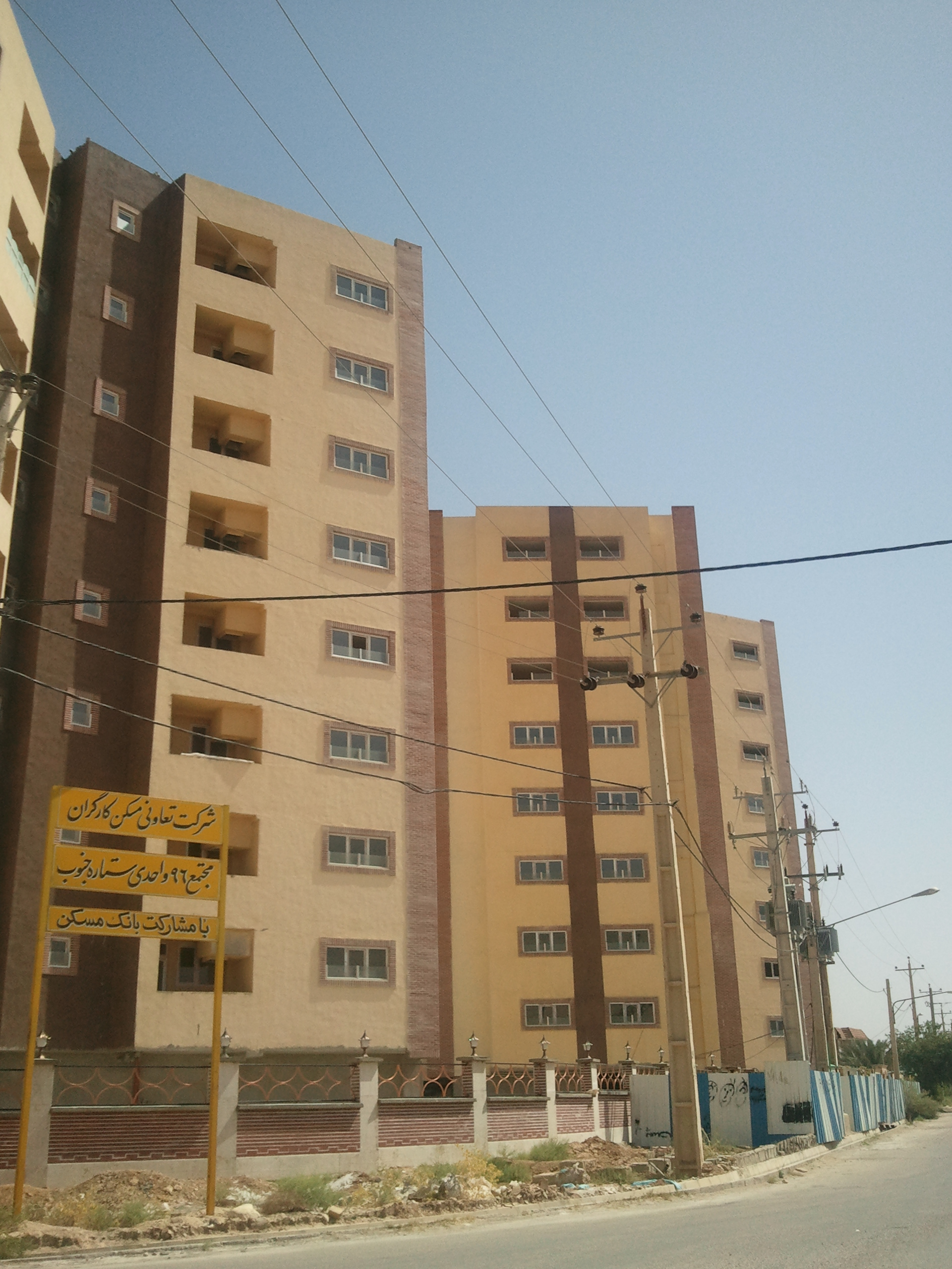 a twin tower in jahrom